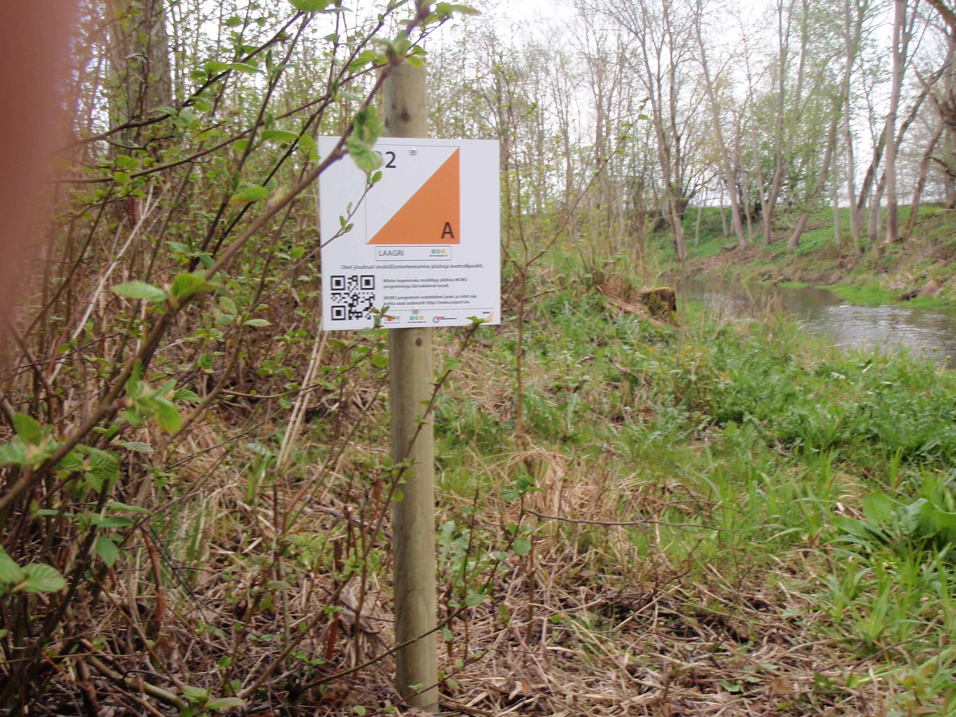 Control point of mobile orienteering